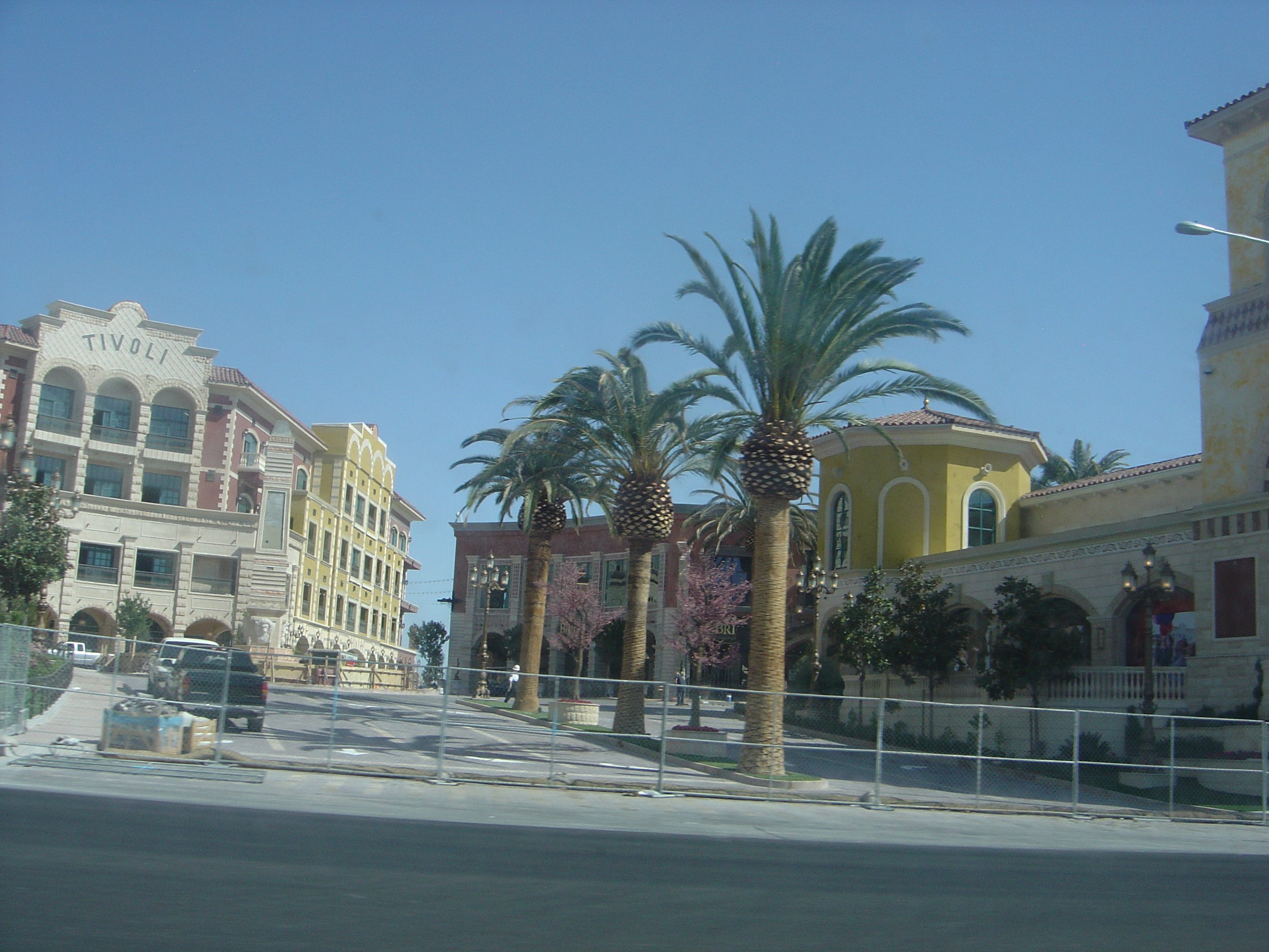 Tivoli Village in Las Vegas during construction.